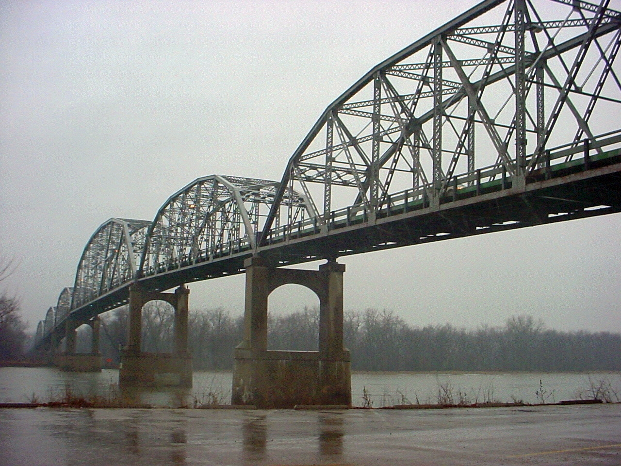 Truss bridge crossing the Illinois River at Henry, Il.